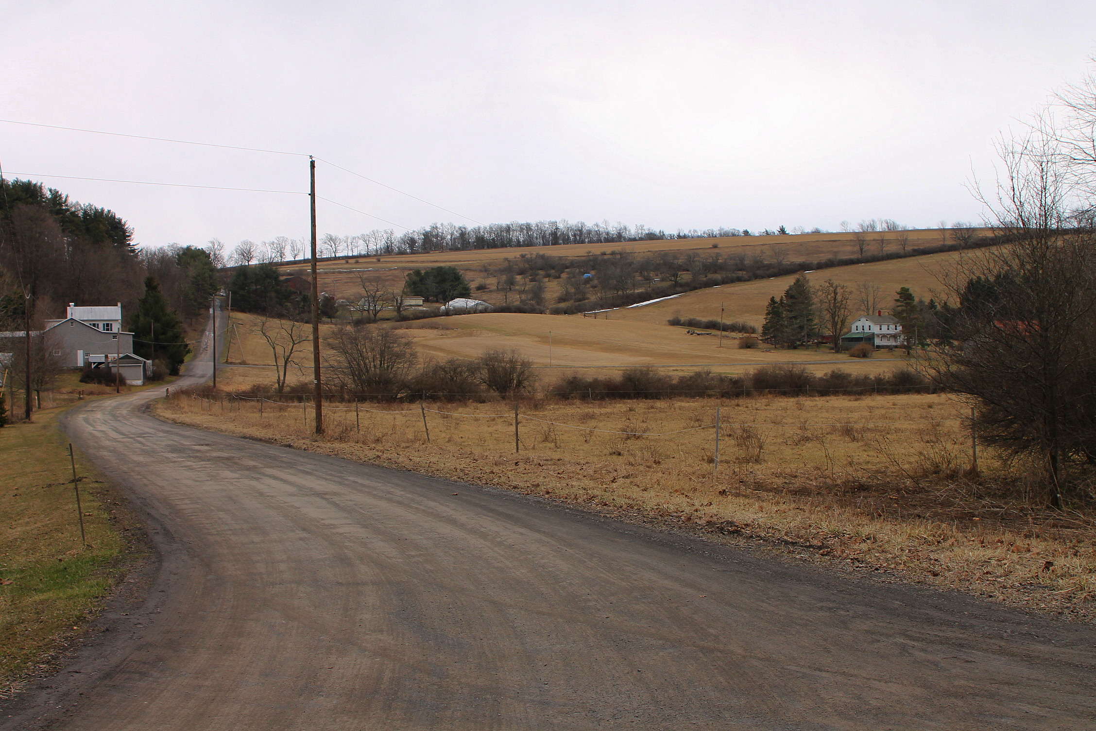 Scenery of Benton Township, Columbia County, Pennsylvania in April